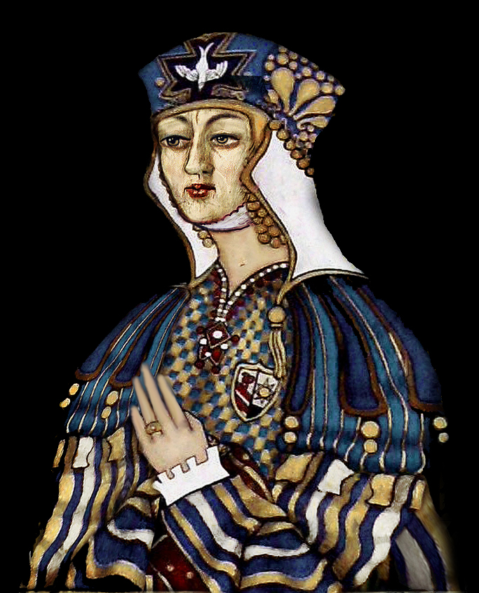 Maria of Blois, Latin Empress of Constantinople